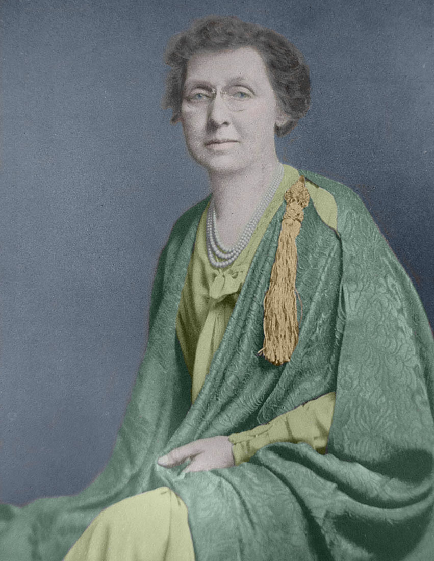 Marcia Crocker Noyes in the middle of her 50 year career at the Medical & Chirurgical Faculty of Maryland.